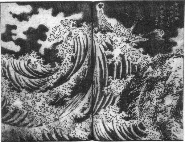 Yūreisen (幽霊船, Ghost ship) from Hokuetsy-Kidan (北越奇談)